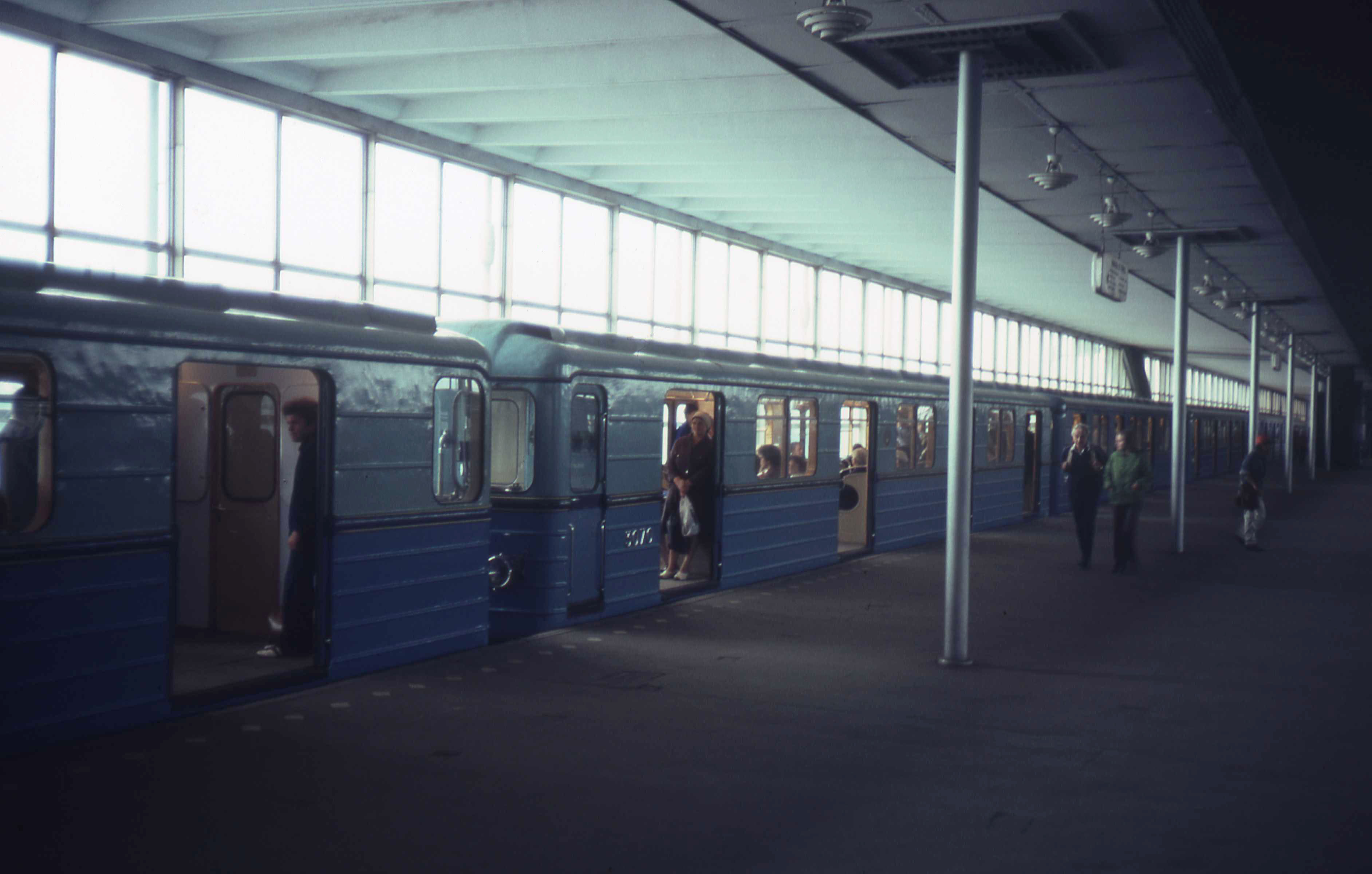 Moscow metrostation Leninskiye Gory in 1982, before reconstruction and rename to Vorobyovy Gory